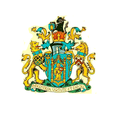 Arms of Yeovil Town